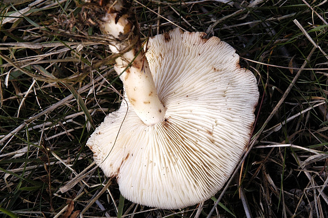 Gymnopus hariolorum from Commanster, Belgium. If you think this is a different taxon, please contact James Lindsey. Identification disputed.